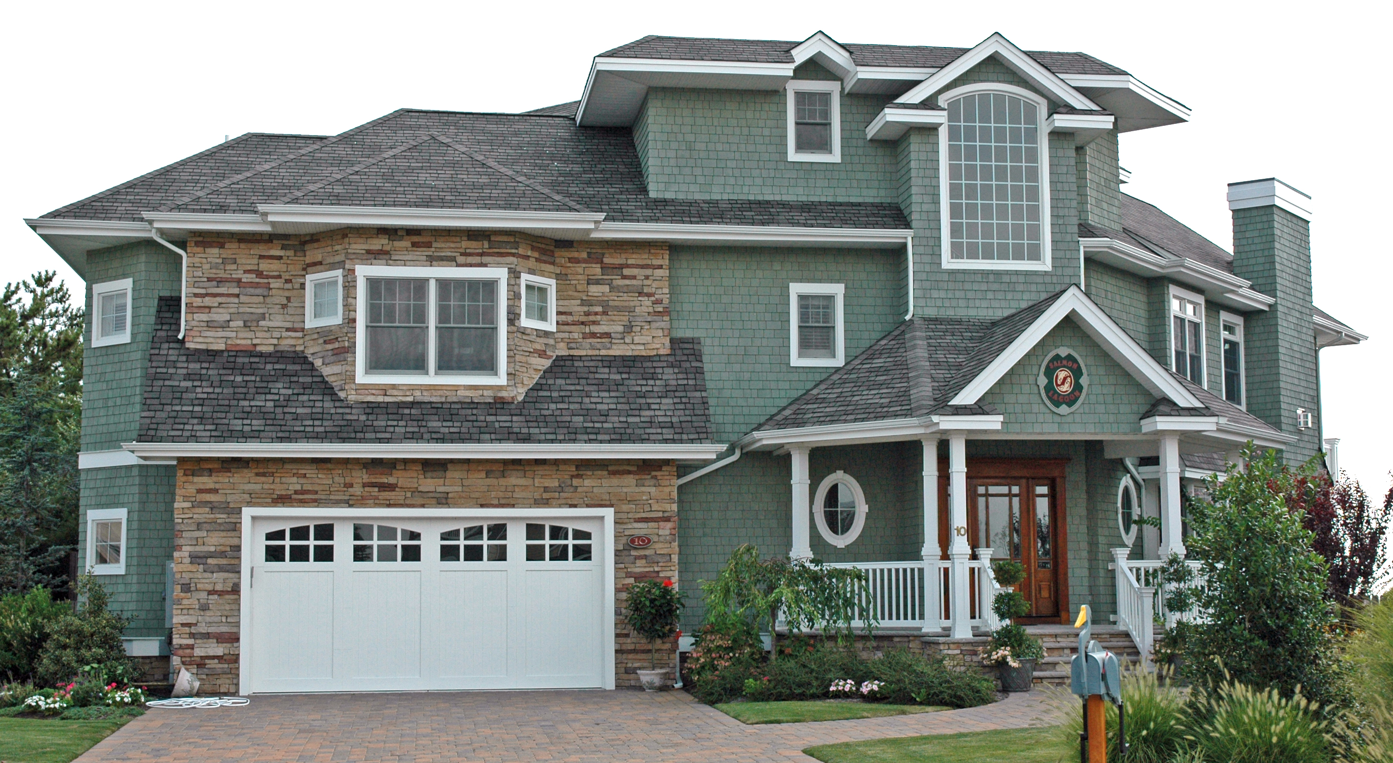 Photograph of a beach home in Avalon, New Jersey showing asphalt shingles. Feel free to use it wherever you wish, please just credit. You can contact me through my website user:tallguy0187 11:26, 17 September 2010 (UTC)